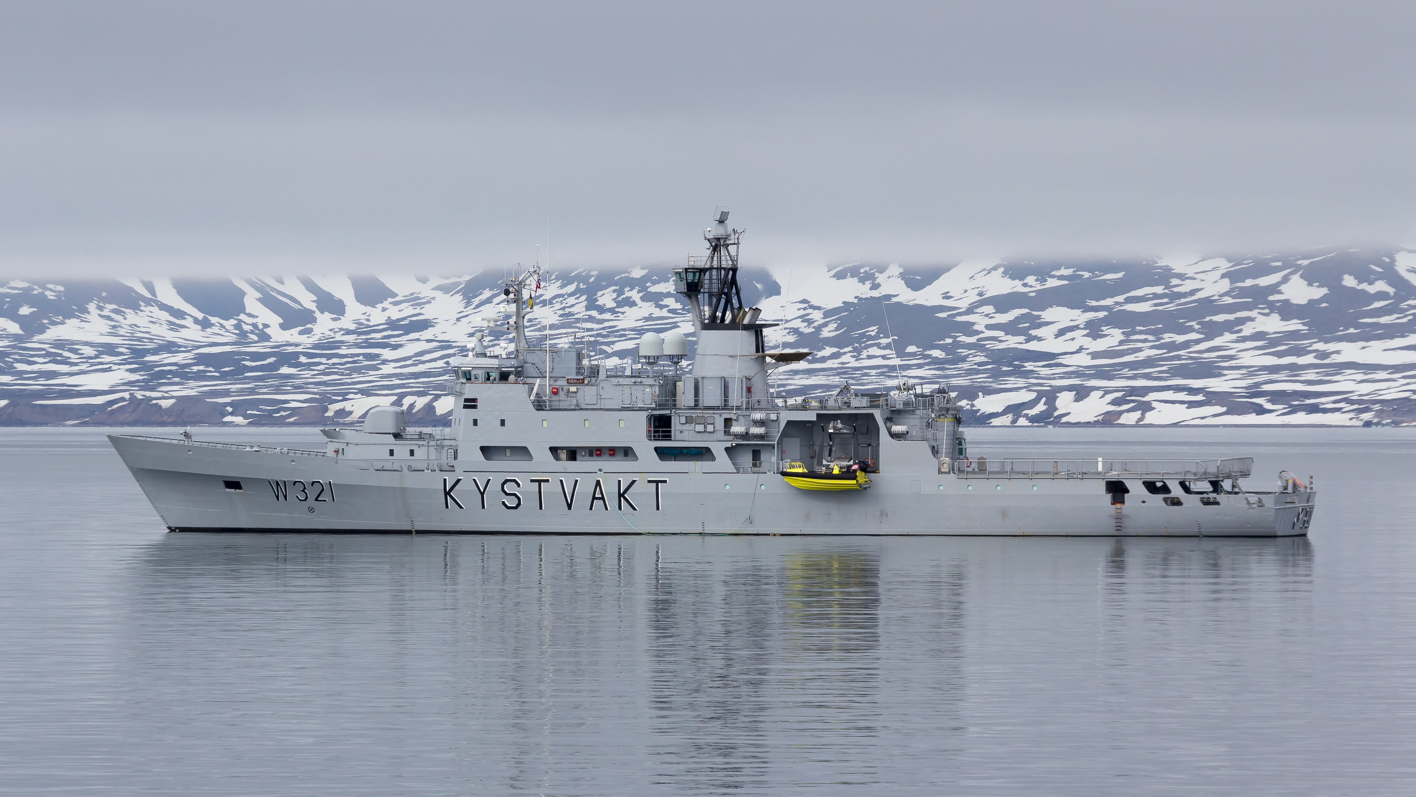 KV Senja in Kongsfjorden (King's Bay) outside of Ny-Ålesund, Svalbard.